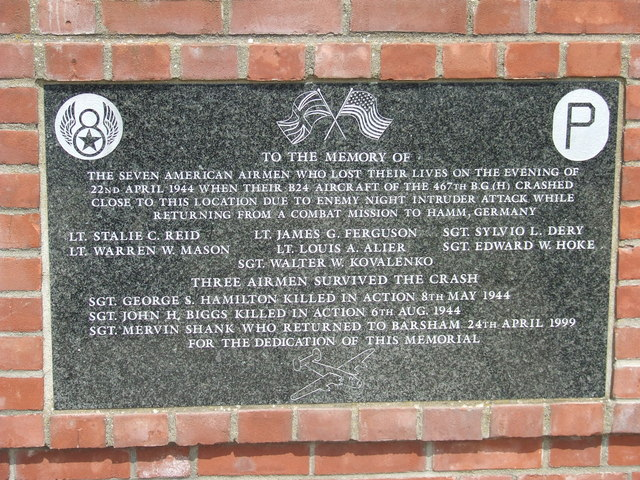 Memorial To Crashed B24. Memorial to crashed B24 Barsham Suffolk also see 450797 and 450811